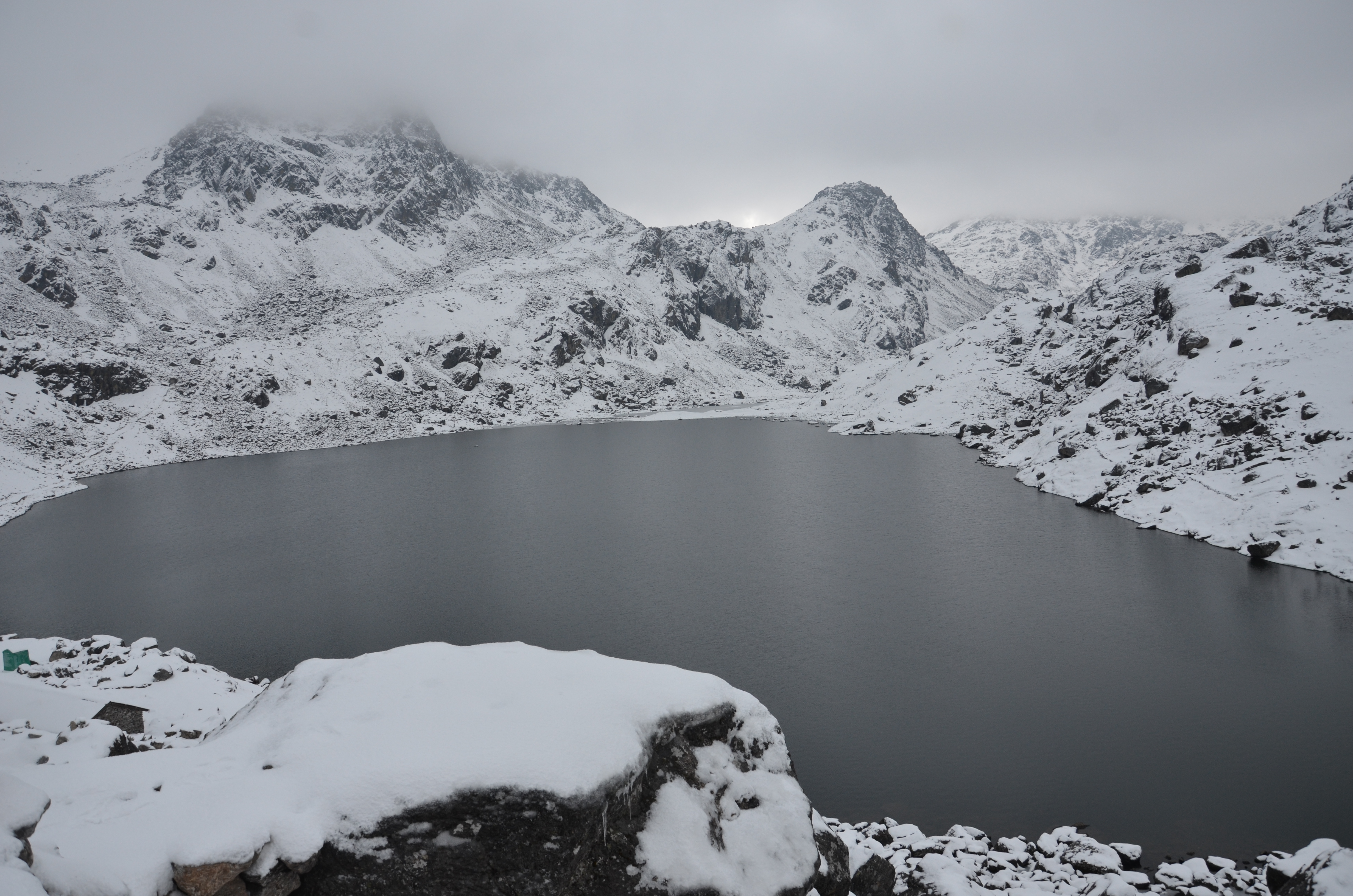 A full view of sacred Gosaikunda Lake.नेपाली: नेपालको रसुवा जिल्लामा अवस्थित गोसाइँकुण्ड तालमैथिली: नेपालके रसुवा जिलामें अवस्थित गोसाइँकुण्ड ताल